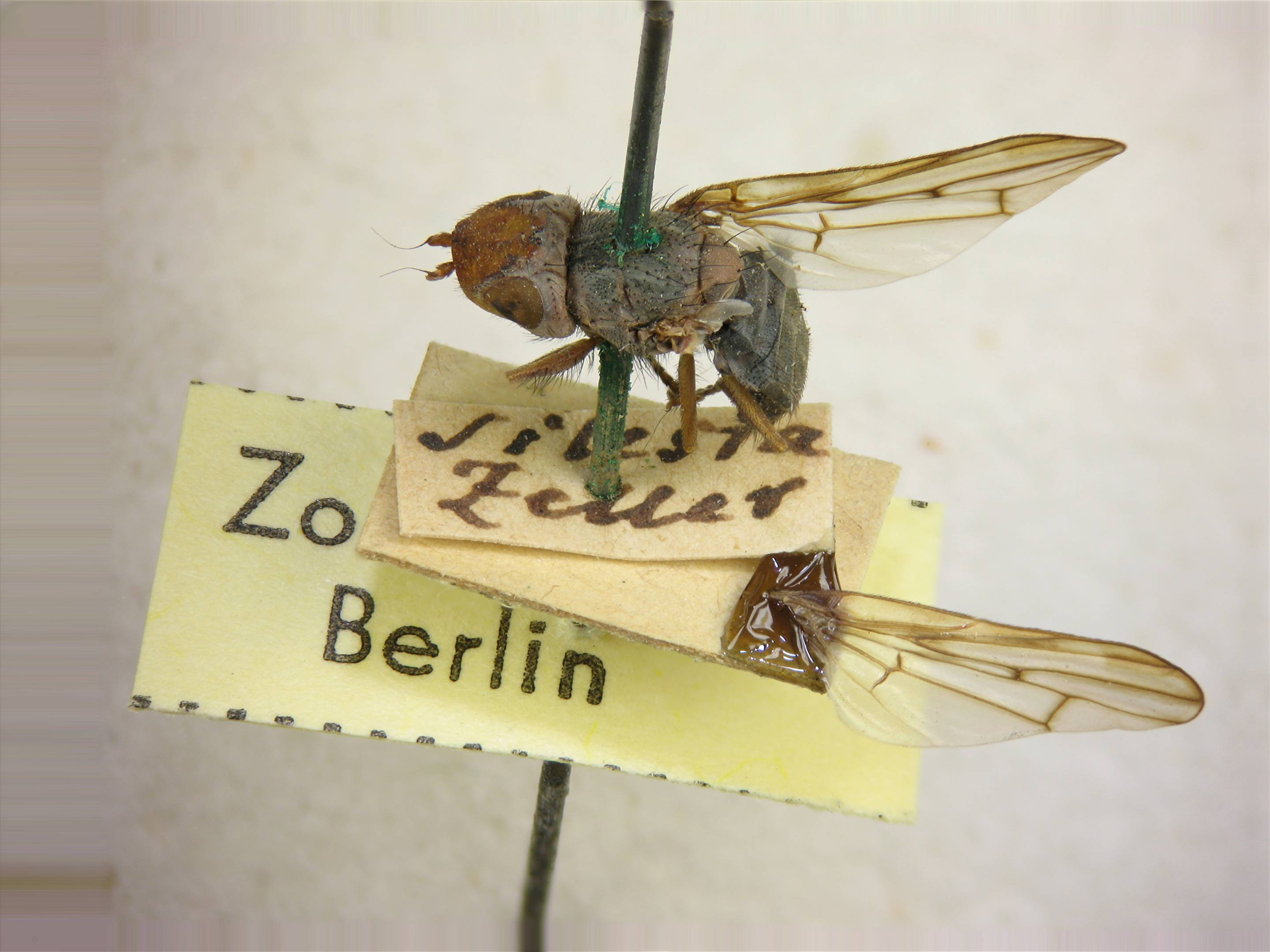 Old specimen from ZMHU collection (Hermann Loew's collection)